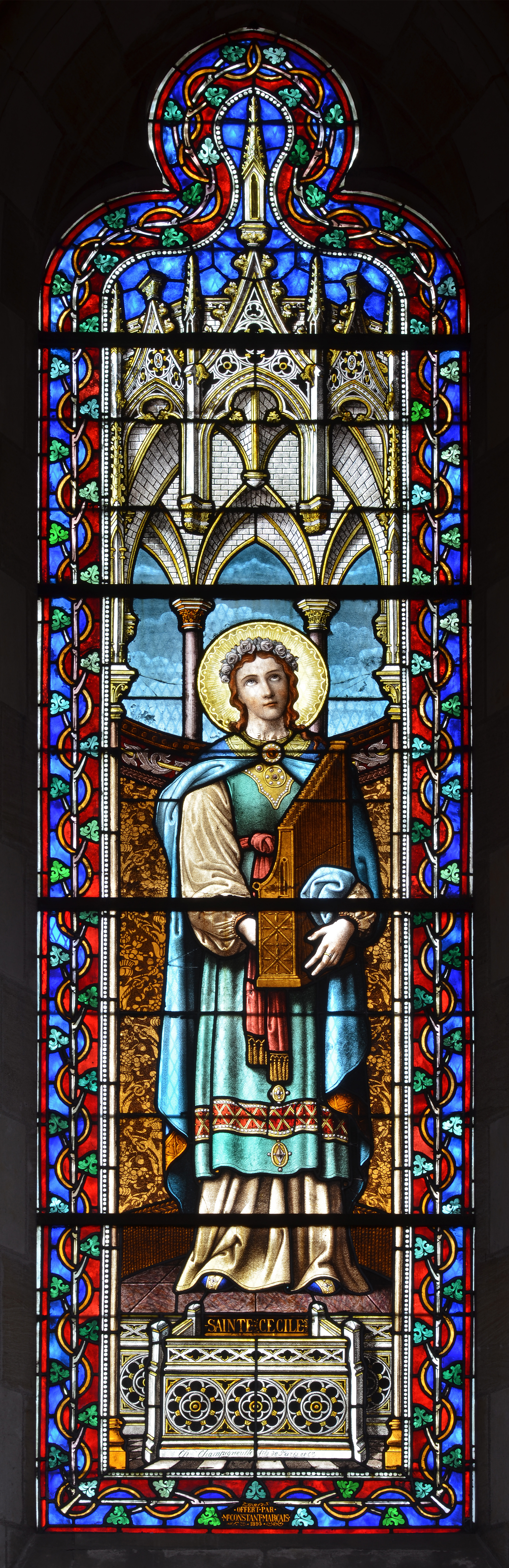 Stained glass window by Charles Champigneulle's workshop (1895) depicting Saint Cecilia - Notre-Dame church, Sablé-sur-Sarthe, France.